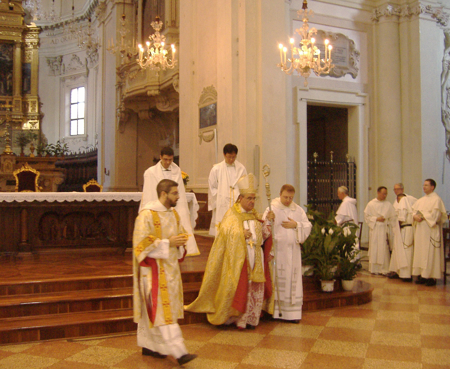 Archbishop Paul Cremona, OP, in Bologna, at Dominican Convent, in Jult 2007.